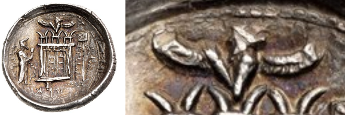 Ahura Mazda on Vādfradād (Autophradates) I